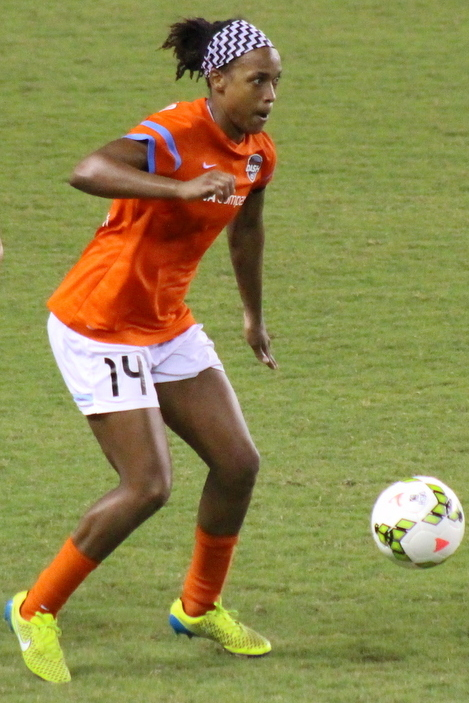 August 30, 2015 at BBVA Compass Stadium in Houston, Texas.